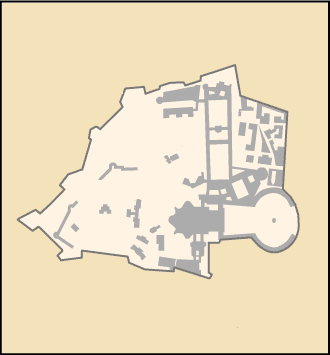 Blank map of Vatican city